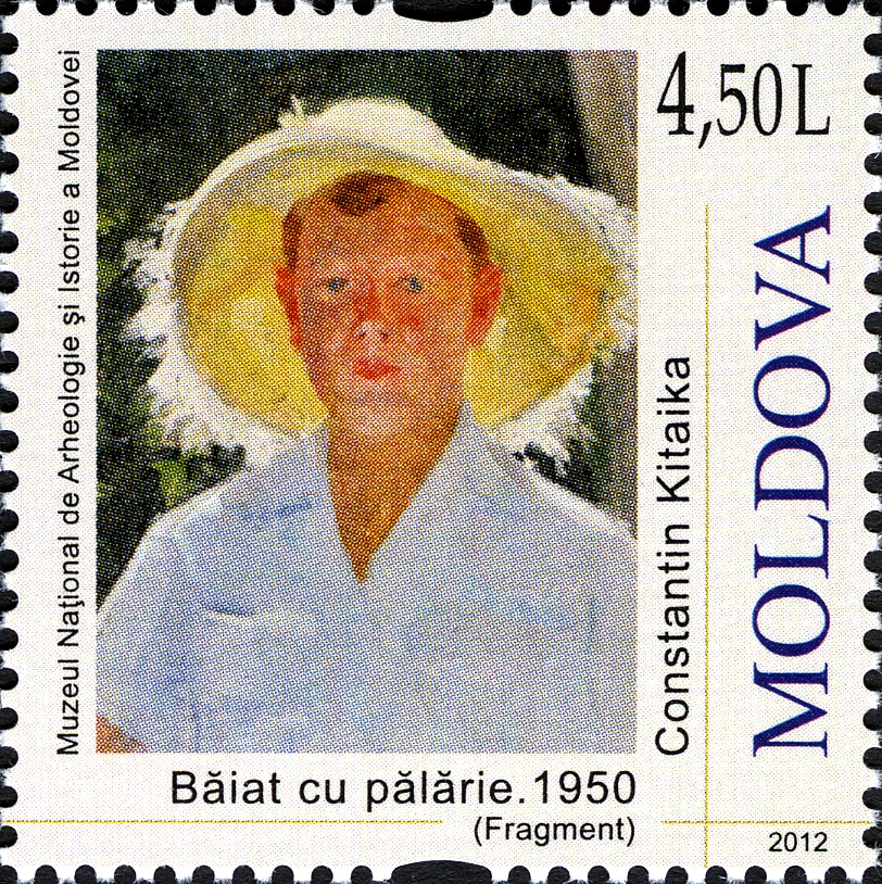 Stamps of Moldova